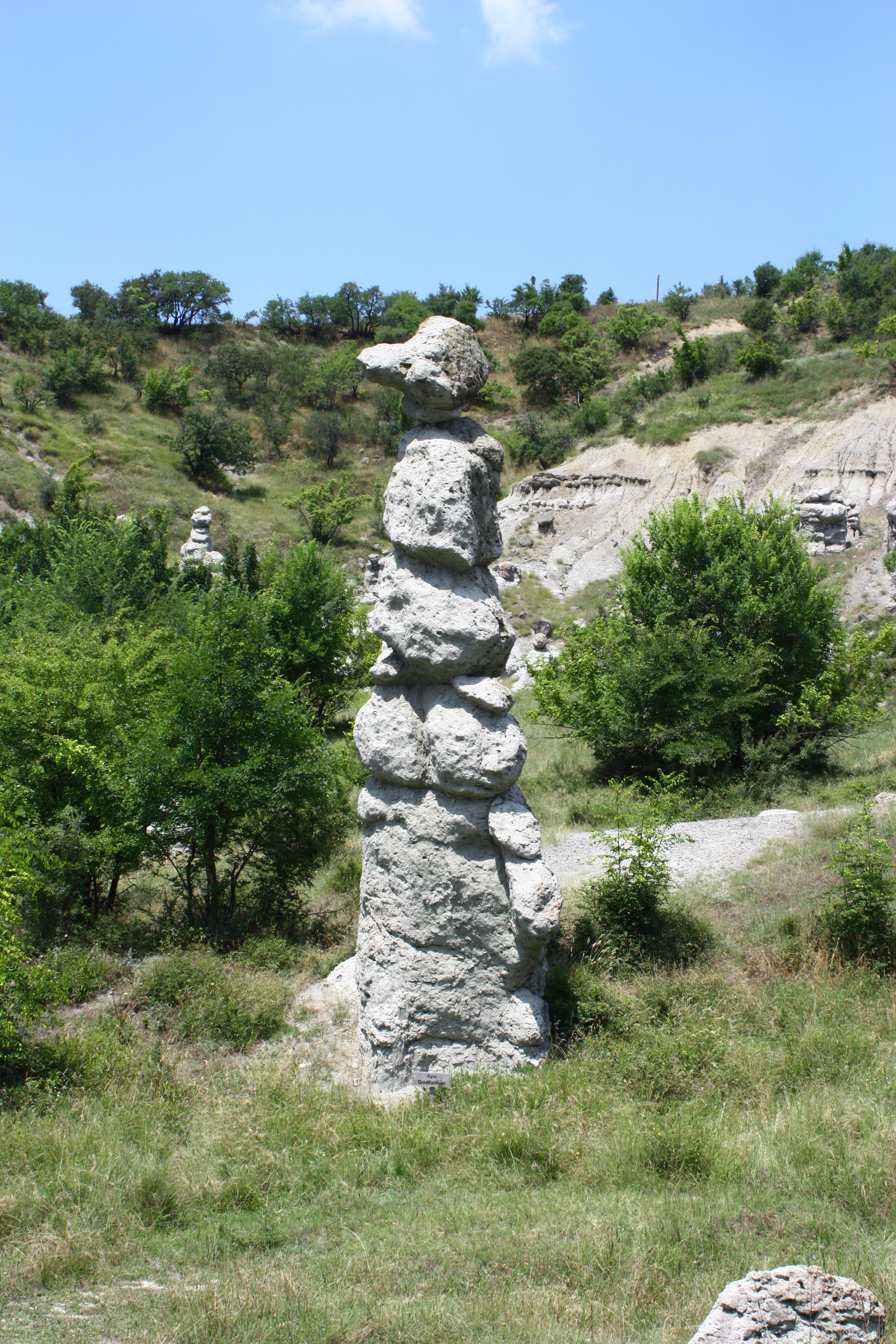 "Stone Dolls" - naturally formed stone pillars. Kuklica, Macedonia